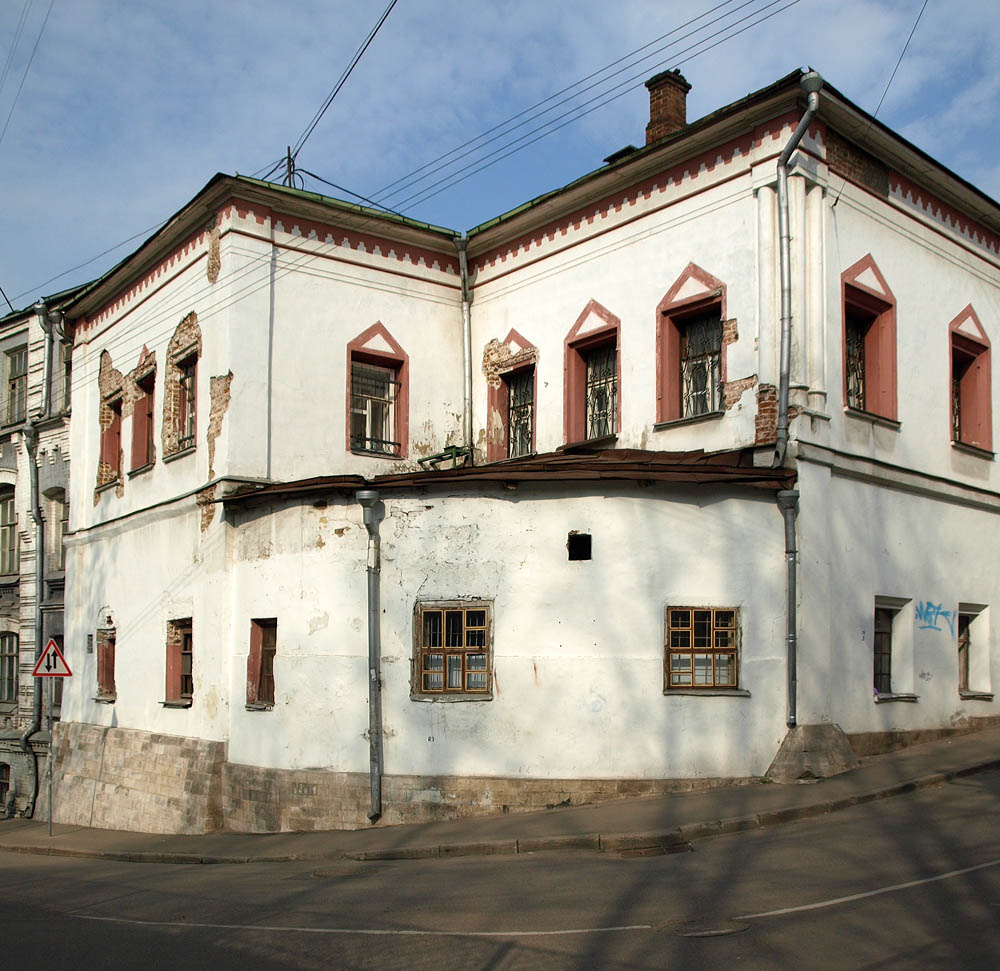 7, Khokhlovsky Lane, Moscow. Corner core building - Ukraintsev House - was built in 1665; in 19th century housed Moscow Archive of Foreign affairs.